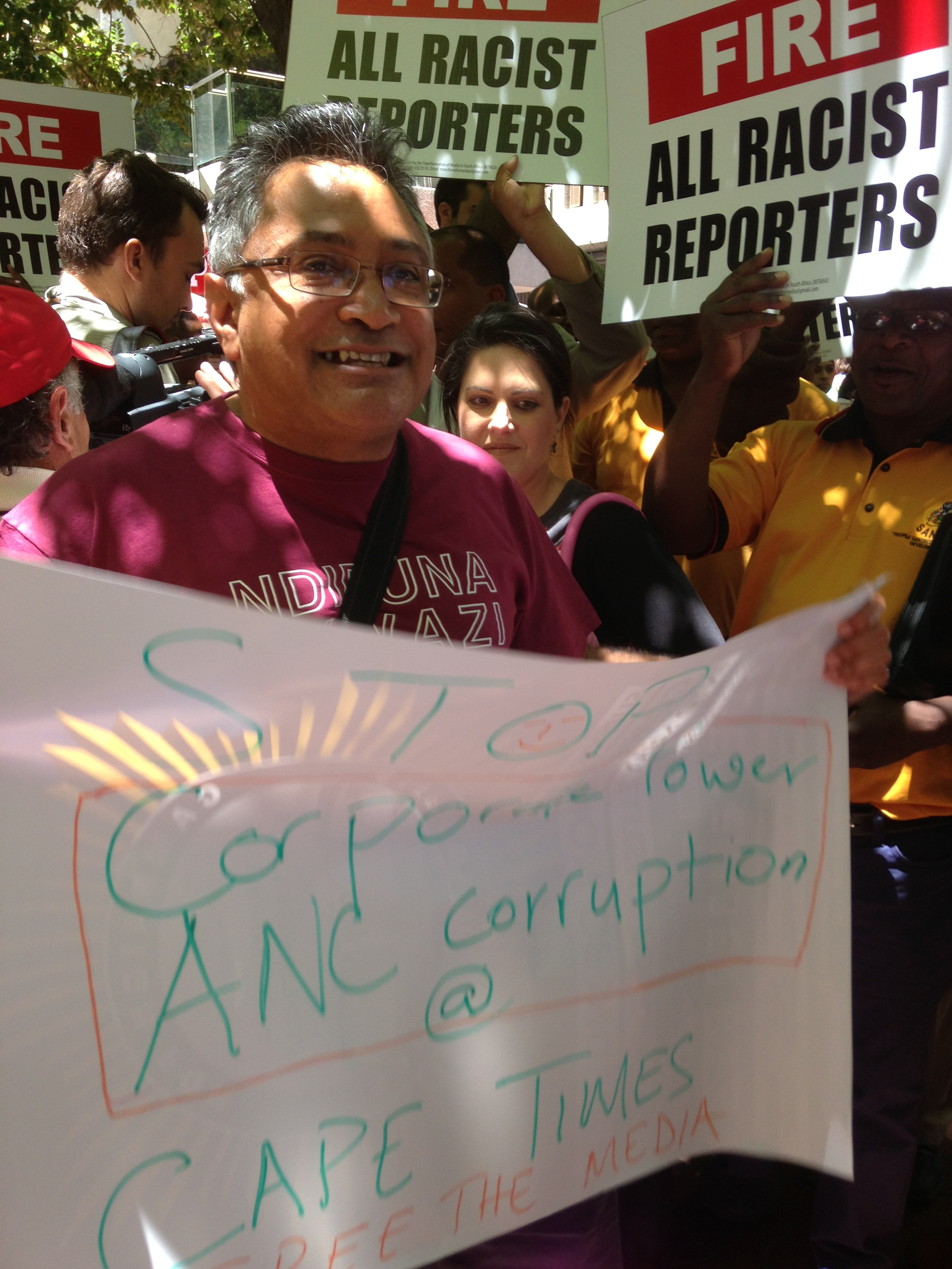 Right2Know Campaign and other civil society organisations hold a picket outside Newspaper House in St George’s Mall on 17 December 2013, Tuesday to protest against the replacement of Cape Times editor Alide Dasnois. Dasnois was allegedly fired for exposing corruption in the corporate sector. Zackie Achmat (protesting in support of Dasnois) in front of counter-demonstrators supporting the replacement of Dasnois. The counter-demonstrators appeared expectantly at the pre-planned demonstration in support of Dasnois.